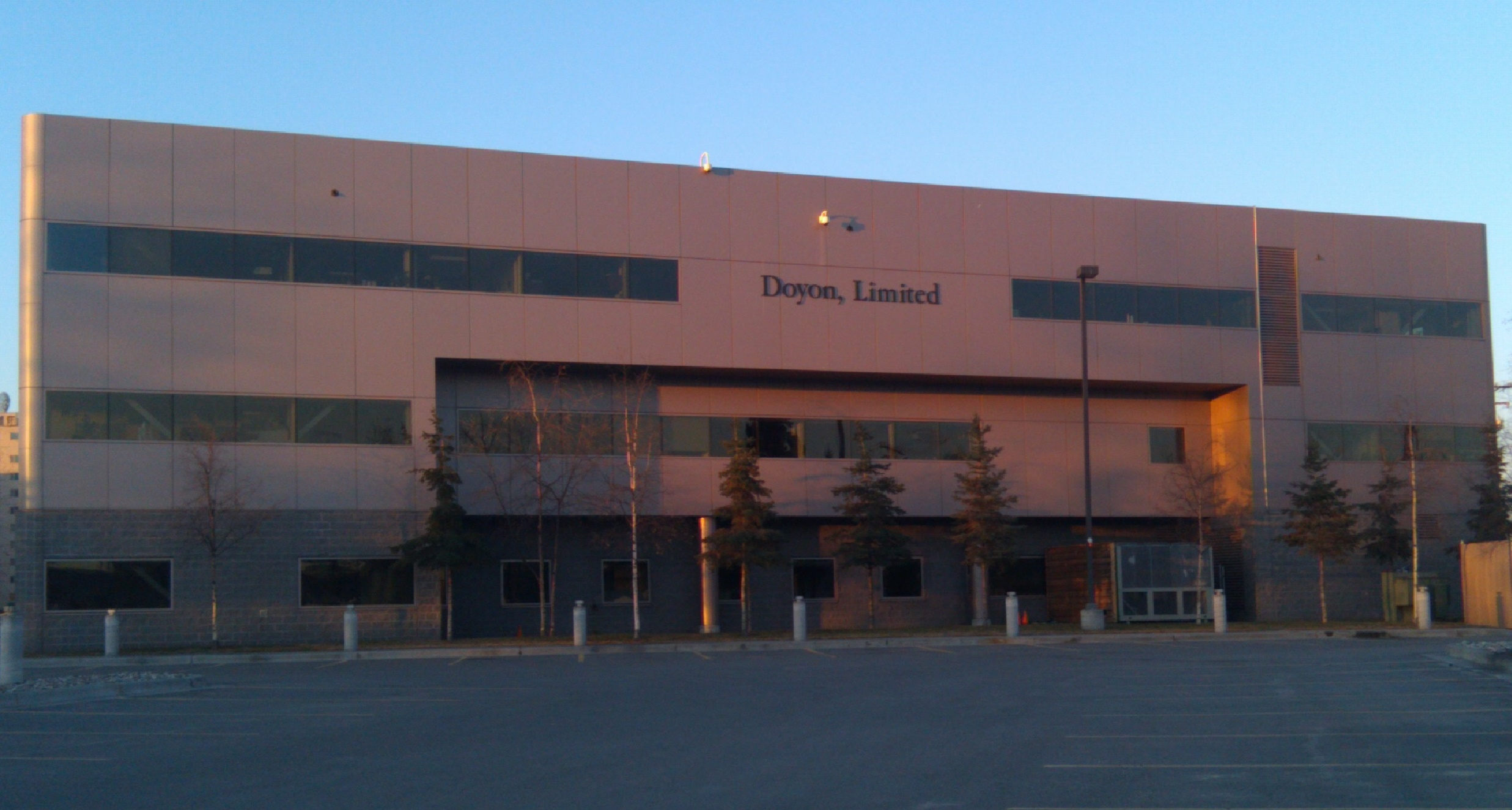 North elevation (or back side) of the headquarters building of Alaska regional native corporation Doyon, Limited, located in downtown Fairbanks, Alaska.